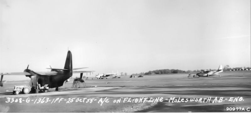 Albatrosses of the 582d Air Resupply Group, RAF Molesworth, England.